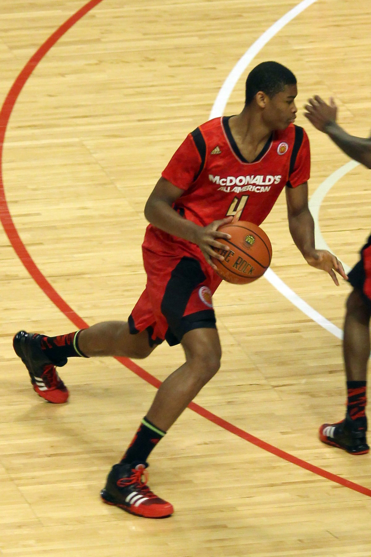 Isaiah Hicks dribbling in the w:2013 McDonald's All-American Boys Game